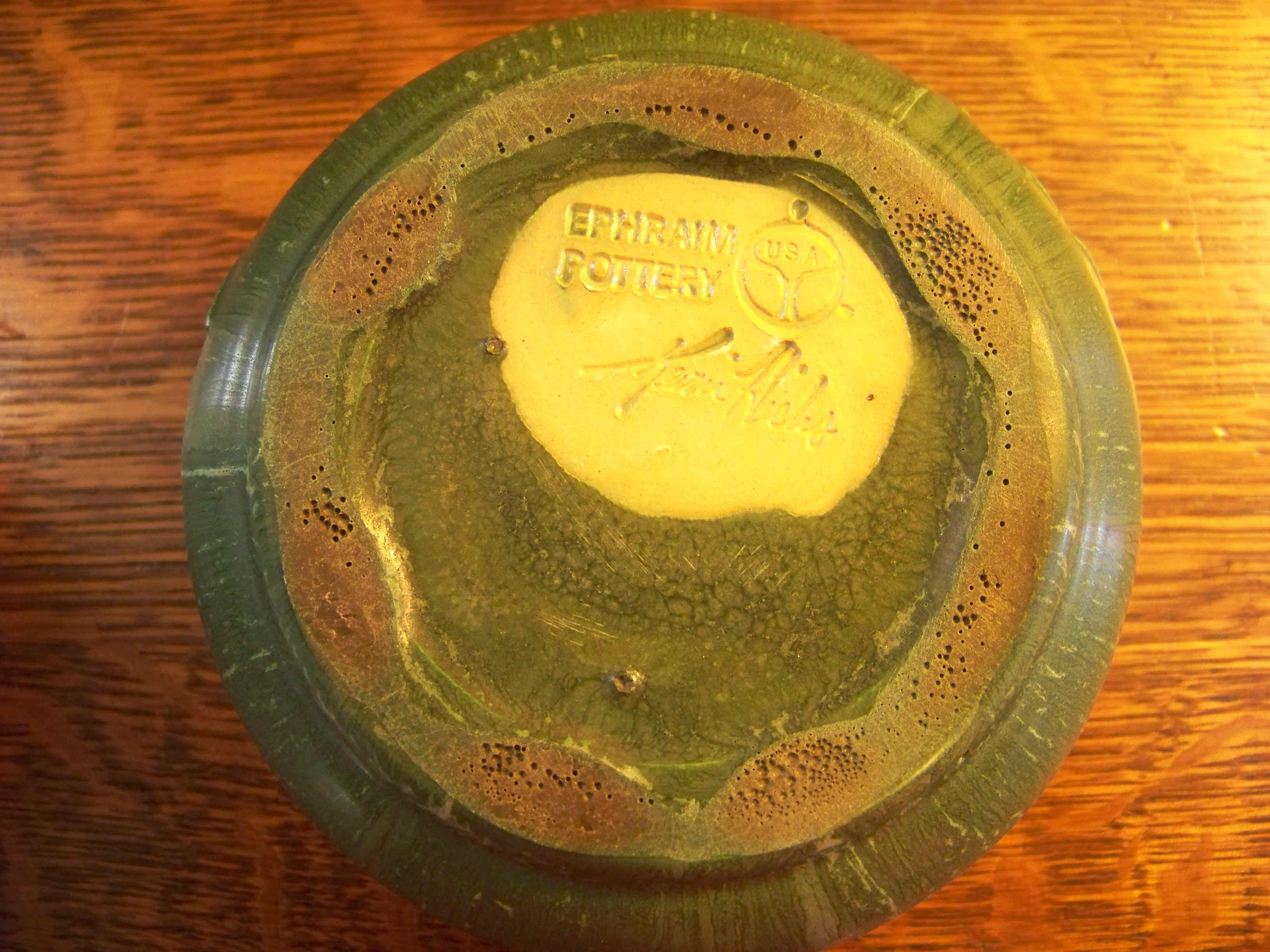 Photograph of identifying mark on the underside of a piece of Ephraim Faience Pottery, from the private collection of Jim & Debra Heaphy. Kristin Cramer Zanetti of Ephraim Faience Pottery gave us permission in an email dated 9/9/2009 to take photos of our collection for the immediate purpose of illustrating a Wikipedia article on Ephraim Faience Pottery.